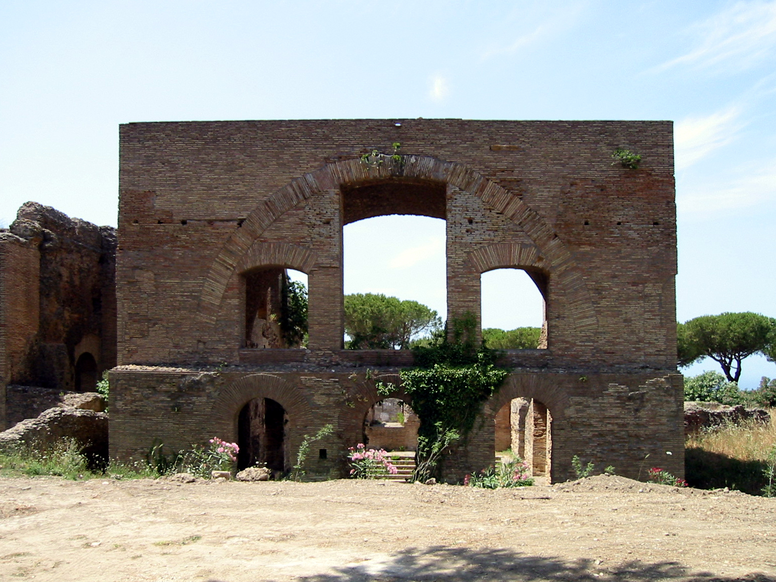 Front of the caldarium at the Terme Taurine near Civitavecchia (the roman Centumcellae) in Lazio in Italy